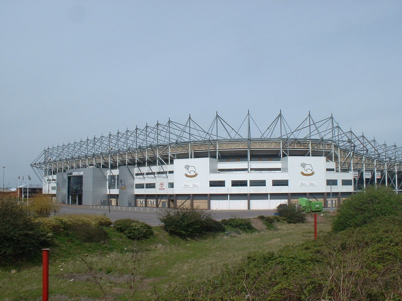 Pride Park Football Stadium, Derby Home to Derby County F.C..